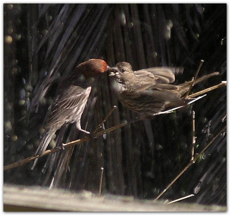 With House finches, only the father feeds the babies. To prompt this behavior, the baby (like many other species of baby birds) opens its mouth wide, cheeps loudly, and flaps its wings.